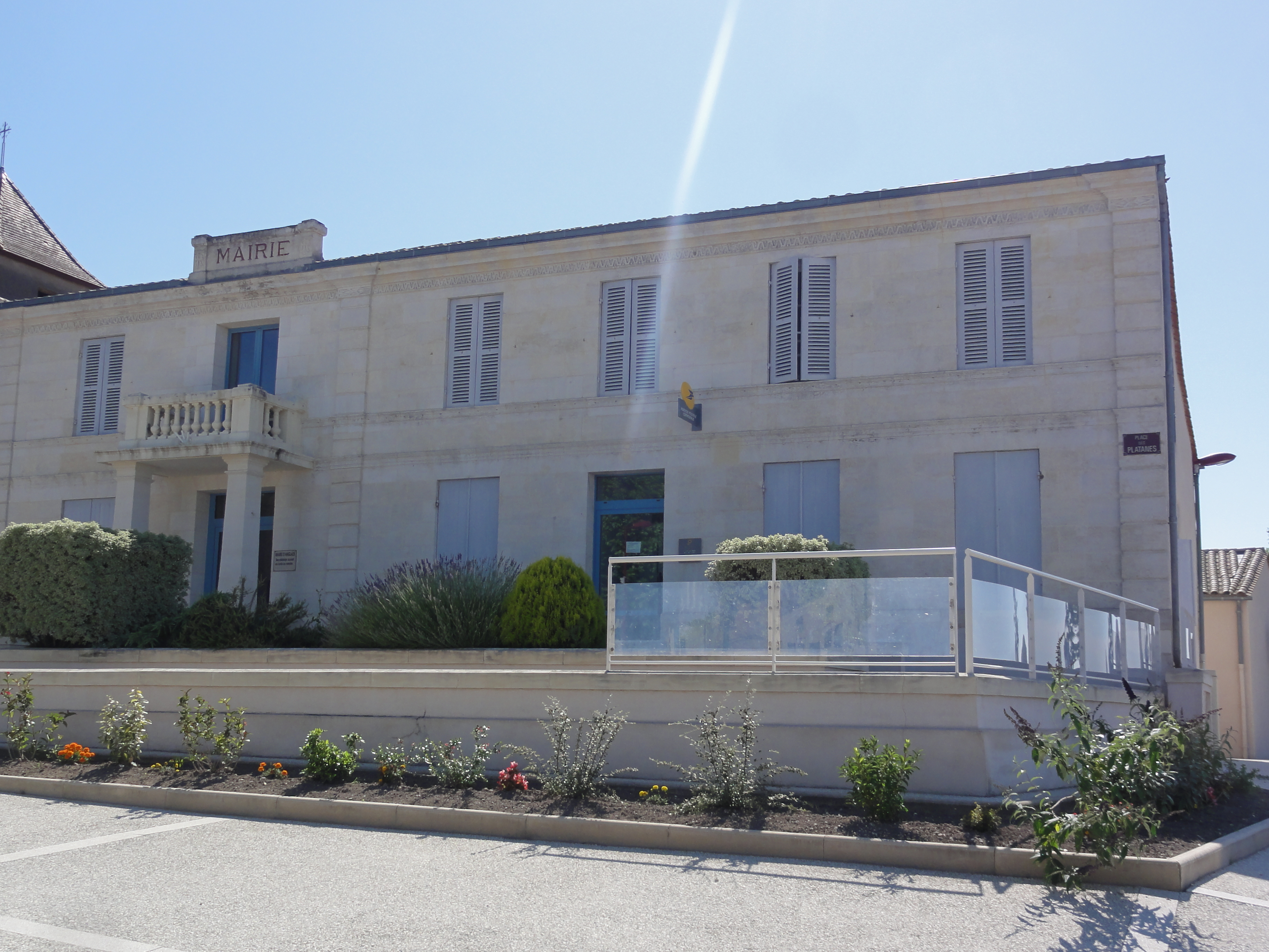 Anglade (Gironde) mairie